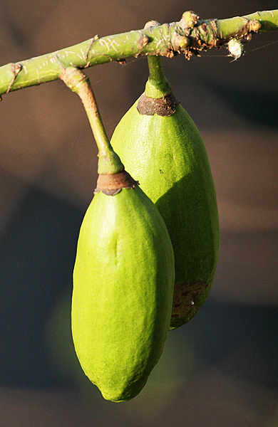 Kapok Ceiba pentandra in Kolkata, West Bengal, India.